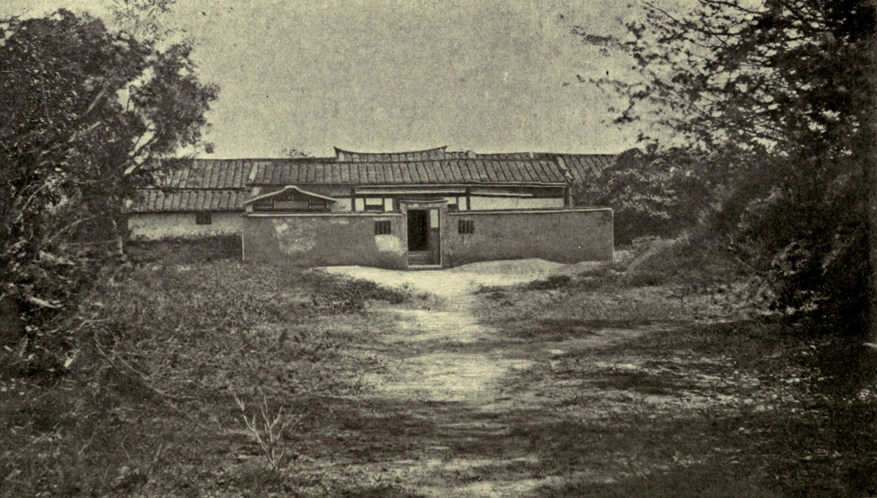 Granary where British subjects from the Nerbudda and Ann were imprisoned before execution in Taiwanfoo in 1842.